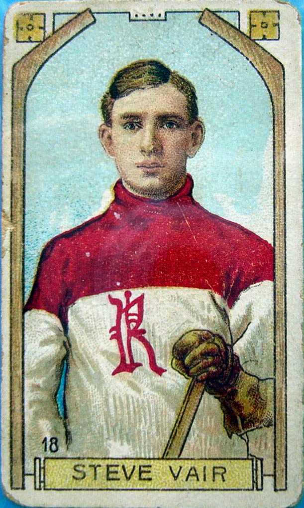 Picture of Steve Vair, card by Imperial Tobacco Canada.